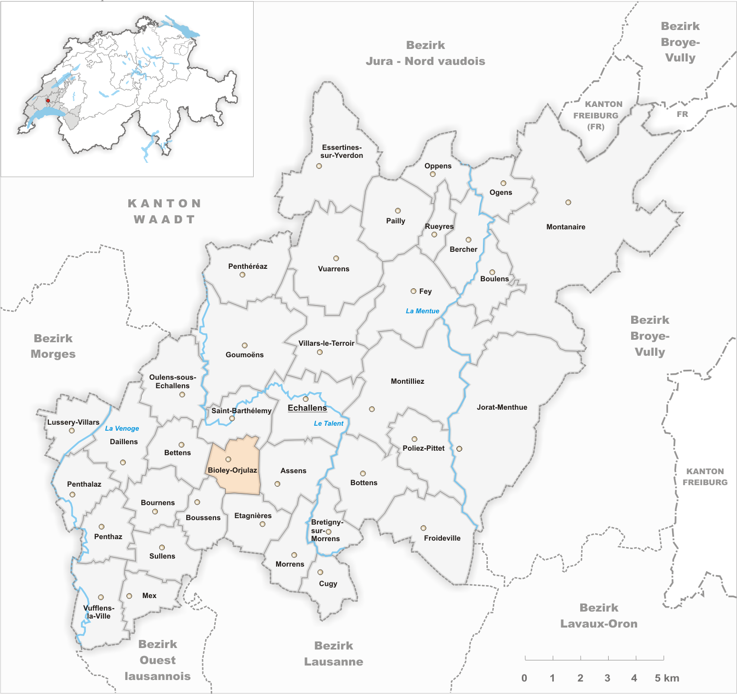 Municipality Bioley-Orjulaz